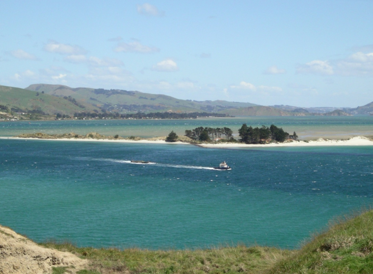 Entrance to Otago Harbour Author: Velela. Location: The entrance to Otago harbour from Taiaroa Head Source: Personal photograph taken by Author October 14 en:2004 Technical data: Pentax Optio 555 digital camera. 1/800s @ f7.9